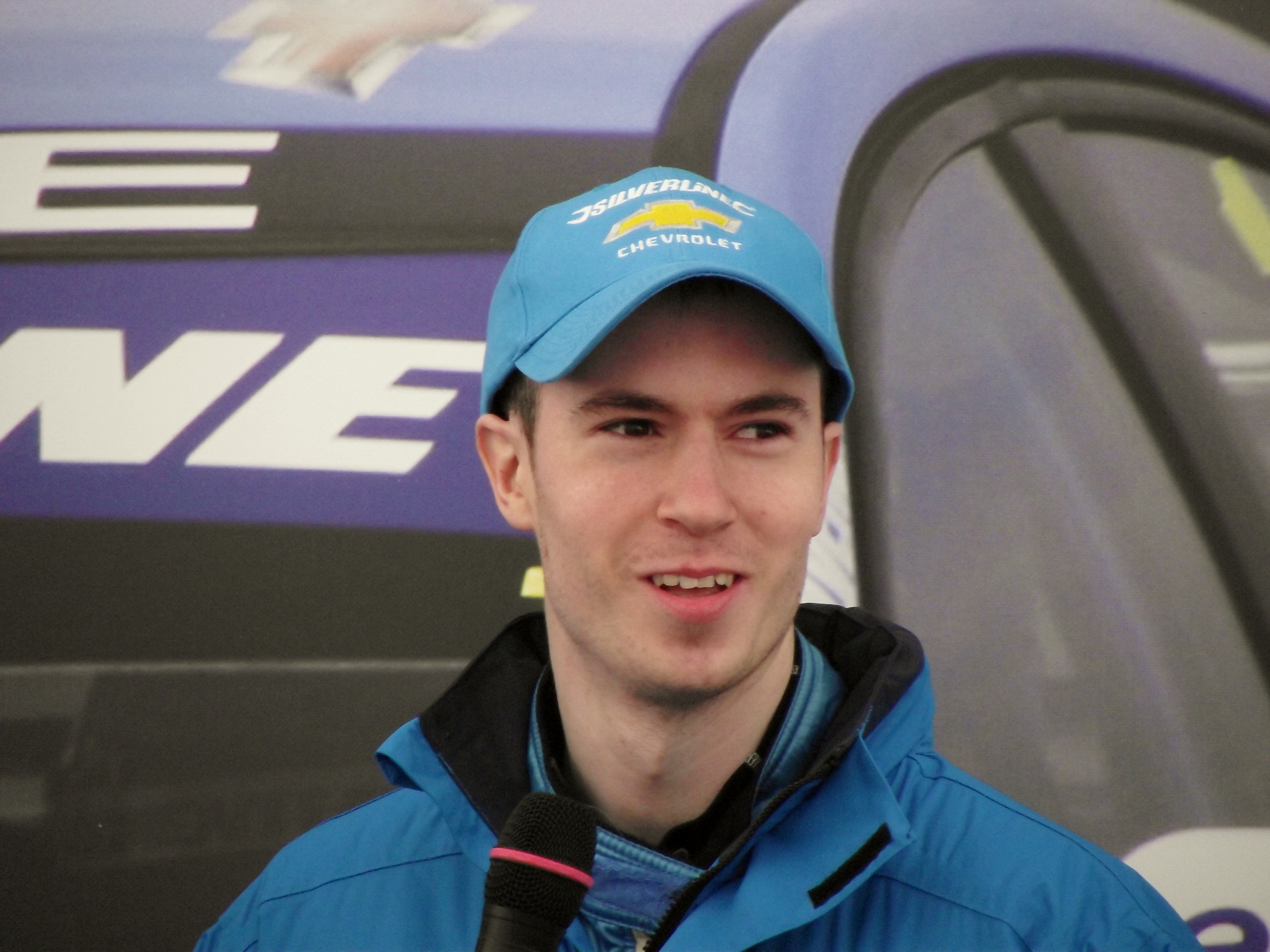 Alex MacDowall as a driver for Silverline Chevrolet at Round 1 of the 2011 British Touring Car Championship Season at Brands Hatch.